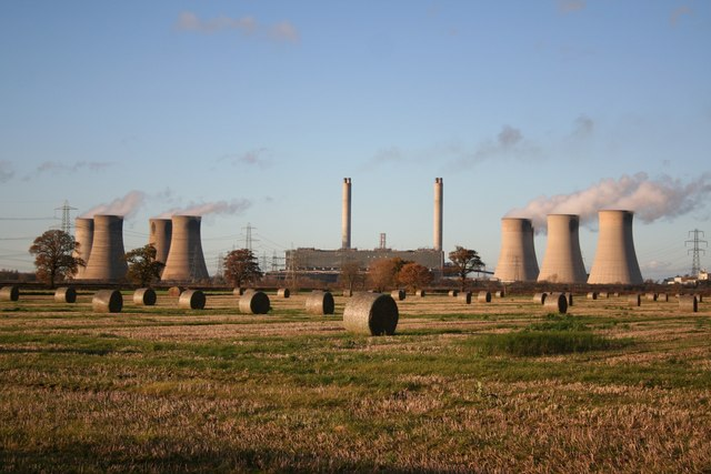 View from Upper Ings Lane